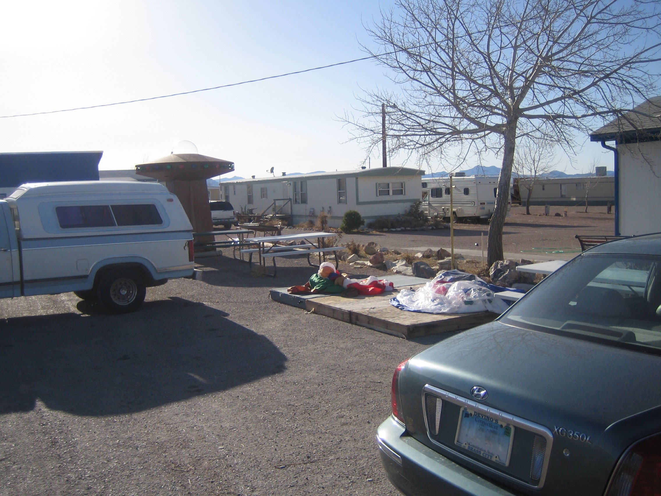 View over Rachel, Nevada outside Litte A'Le'In.